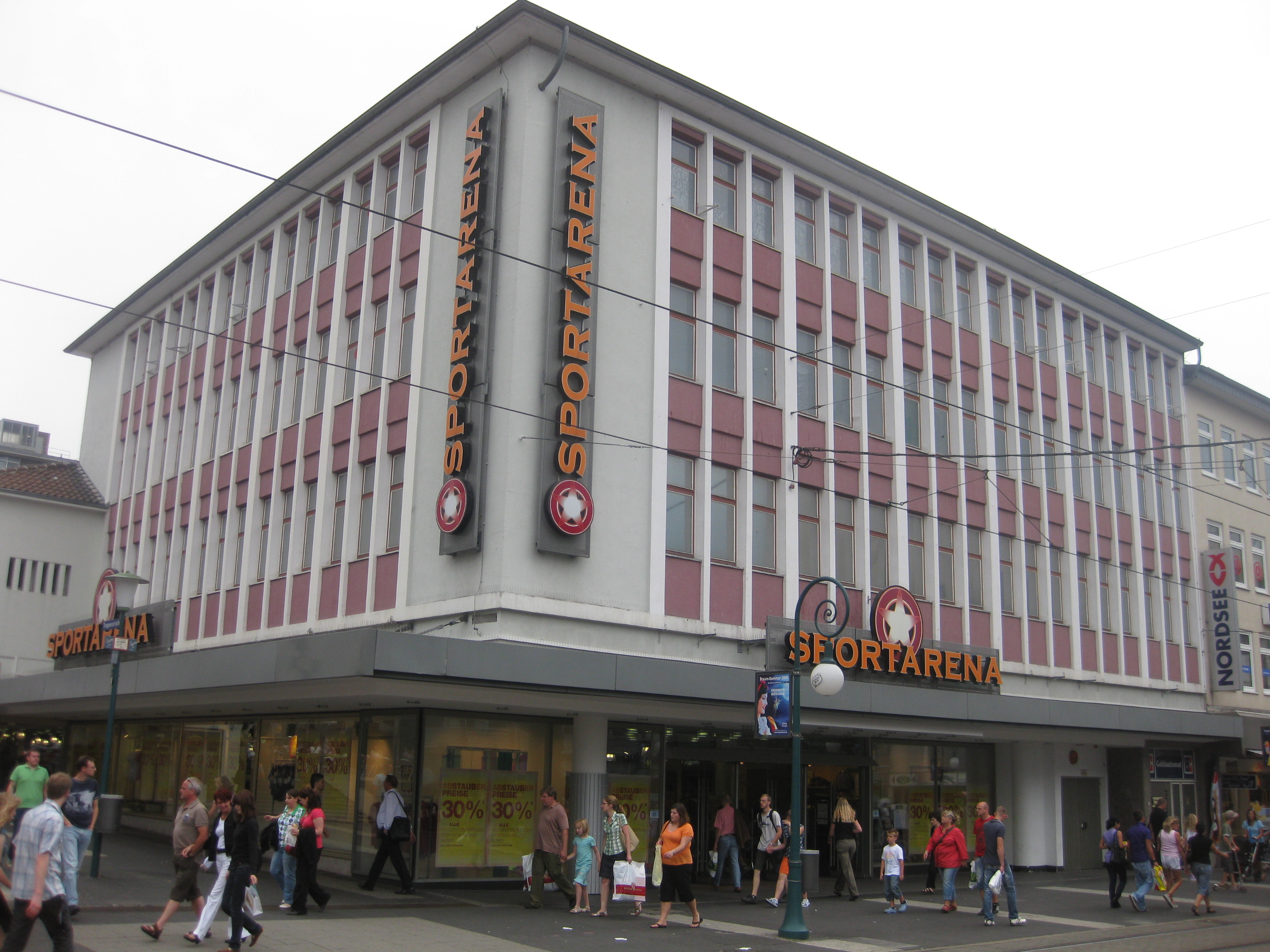 Former "Kaufhalle" department store in Kassel. Since 1999 "Sportarena"